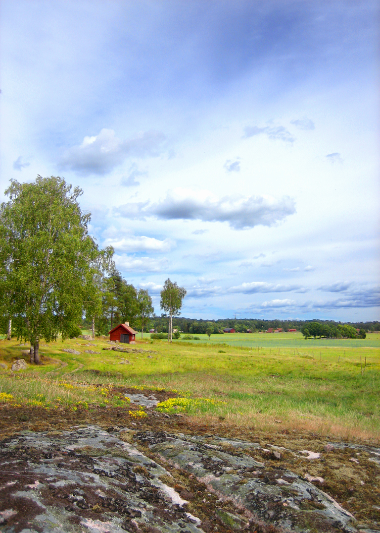 View from Himmeta, Sweden